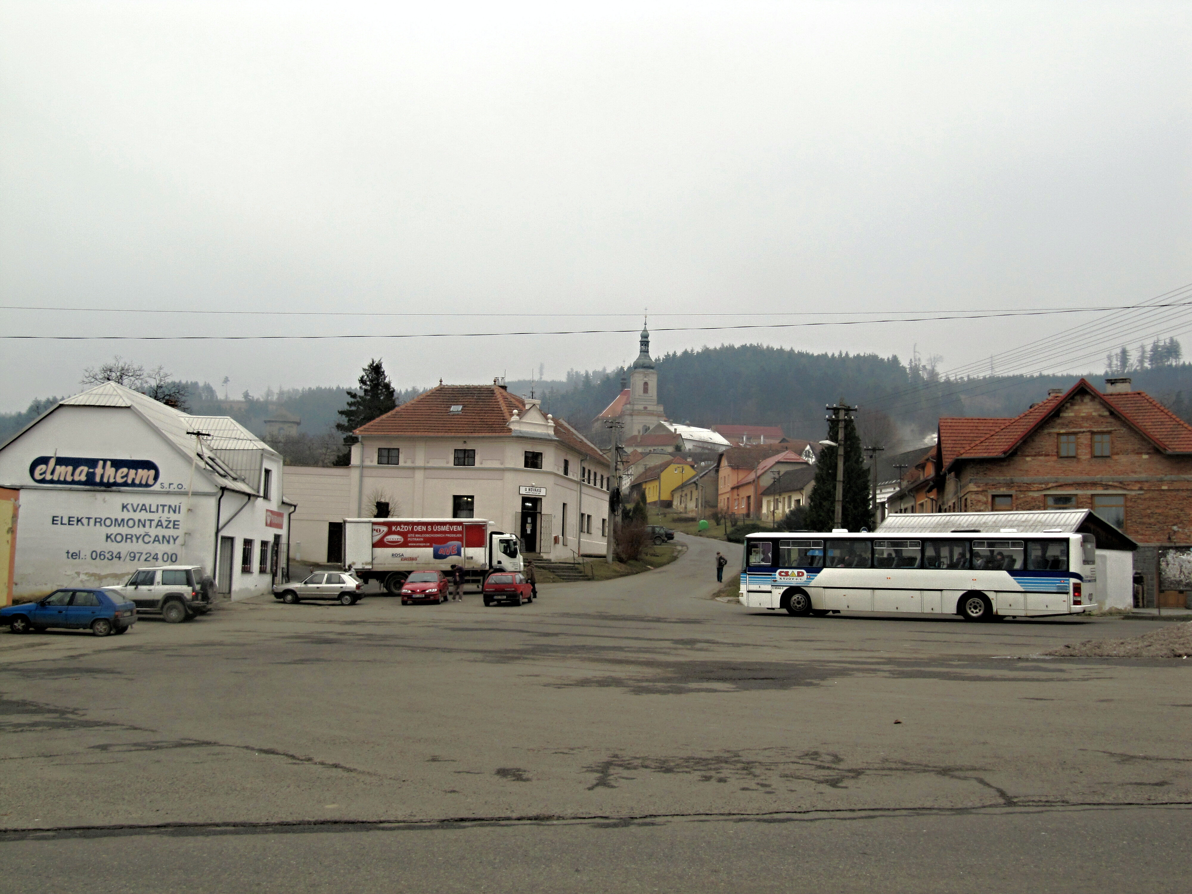 Střílky in Kroměříž District, Czech Republic.Common with bus stop.